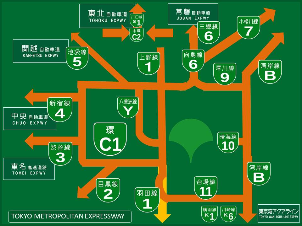 Inner Circular Route (Shuto Expressway)